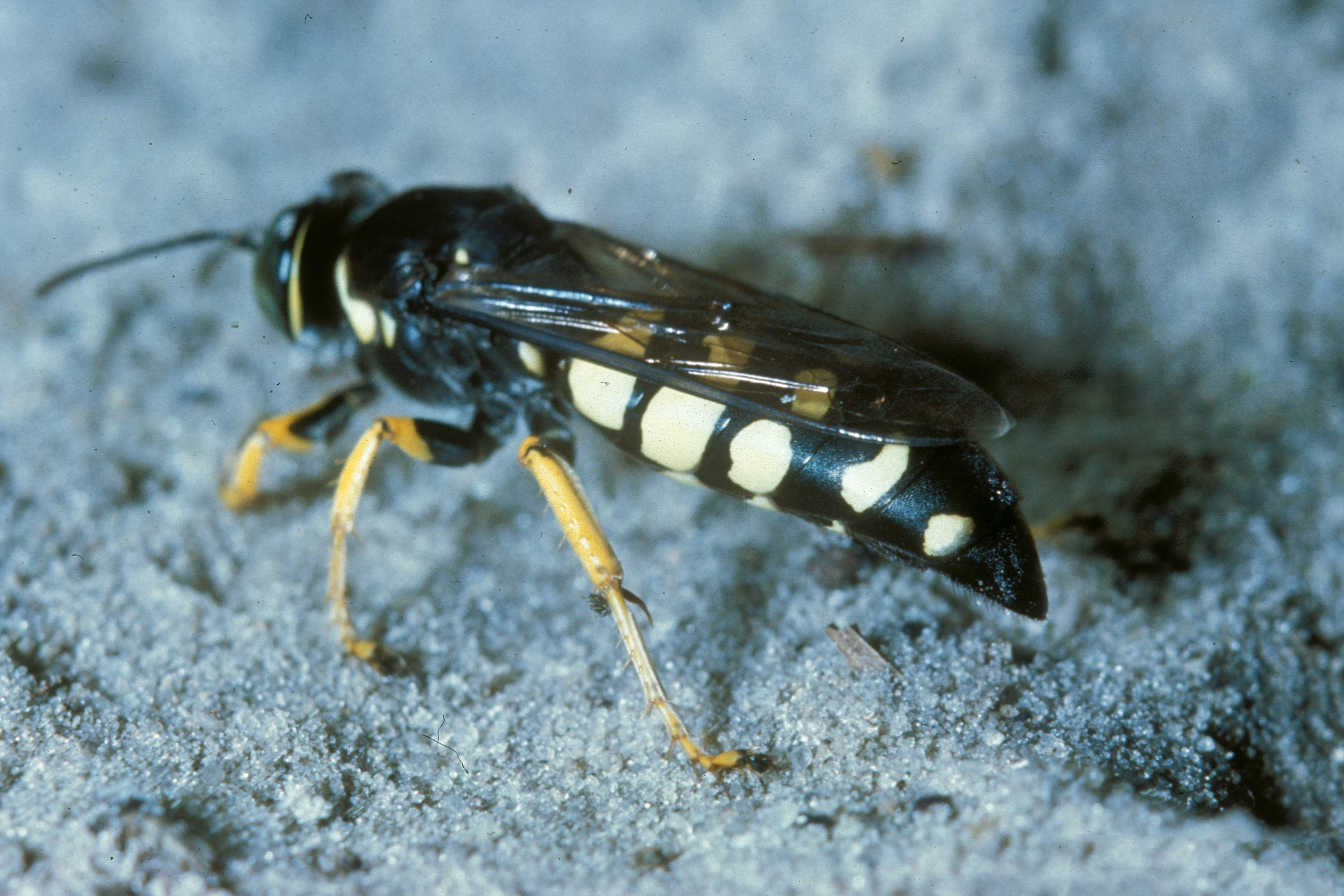 A close up image of the Horse guard wasp, Stictia carolina.